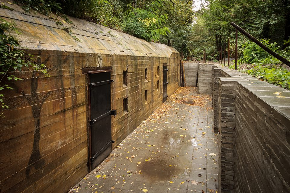 Bunker 622